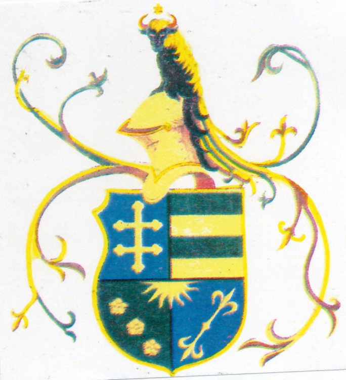 Moldavian voivode Stephen III's old coat of arms